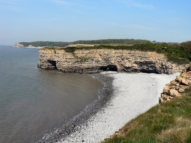 Cliffs at Tresillian Bay, Llantwit Major